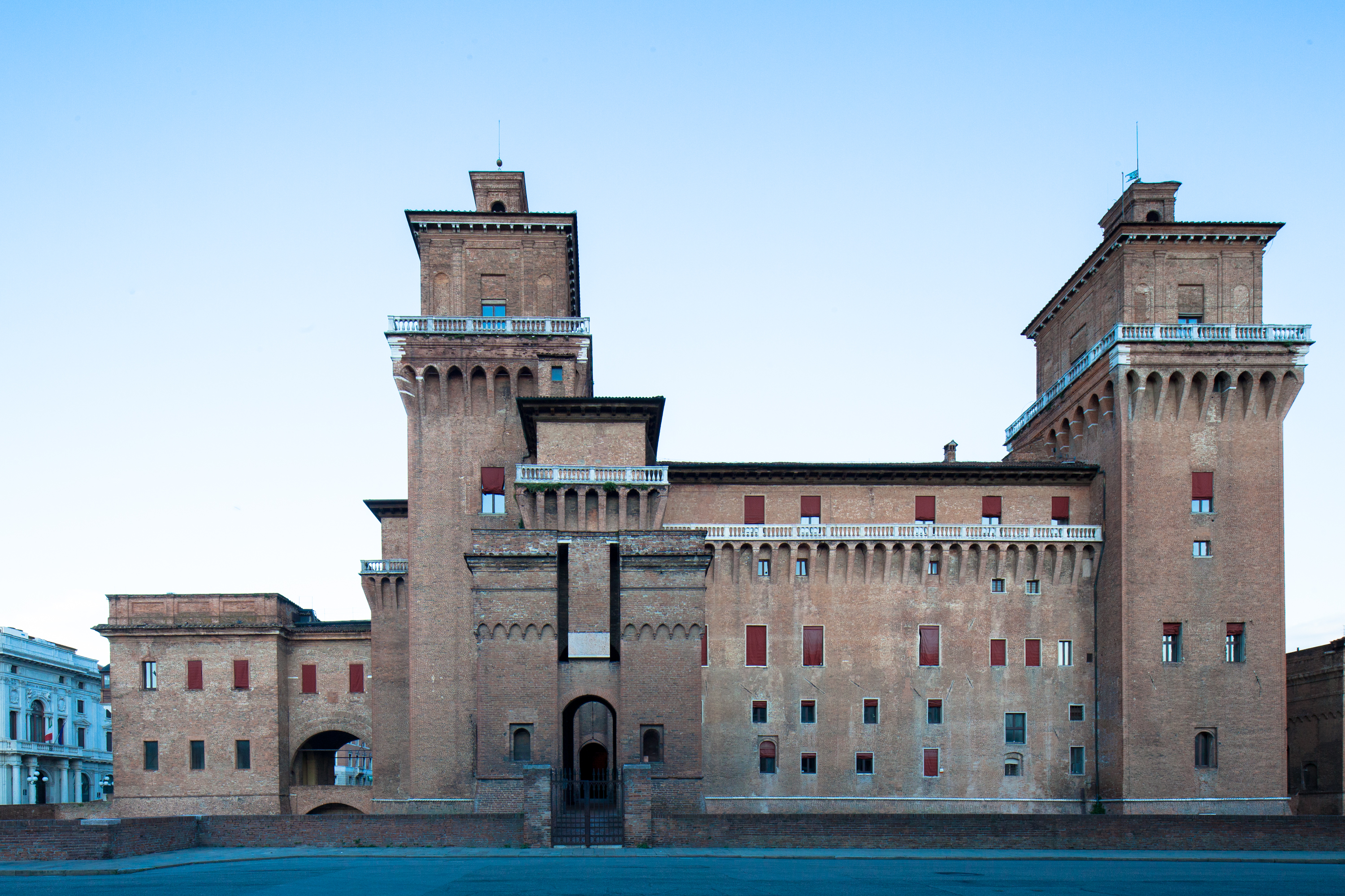 Il Castello estense di Ferrara, facciata rivolta a nord ovest.